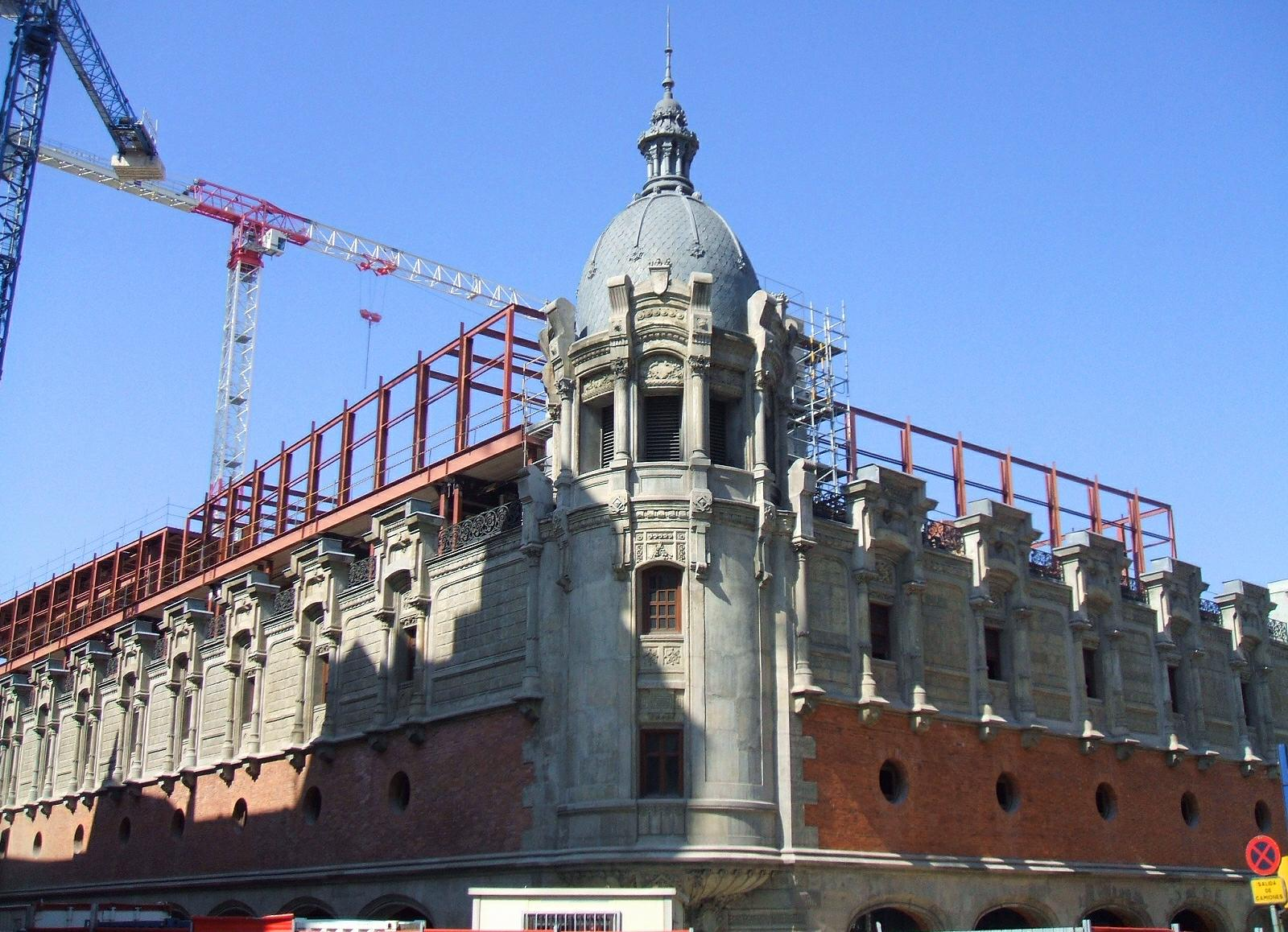 Antigua Alhóndiga de Bilbao (Vizcaya, País Vasco, España)